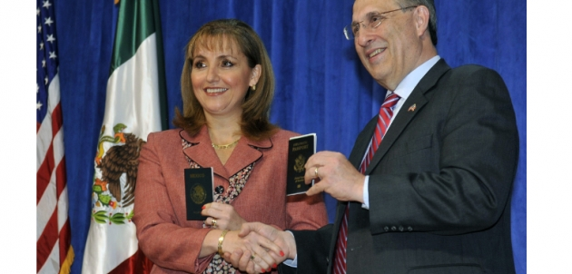 Global Entry launch Gloria Guevara and Anthony Wayne